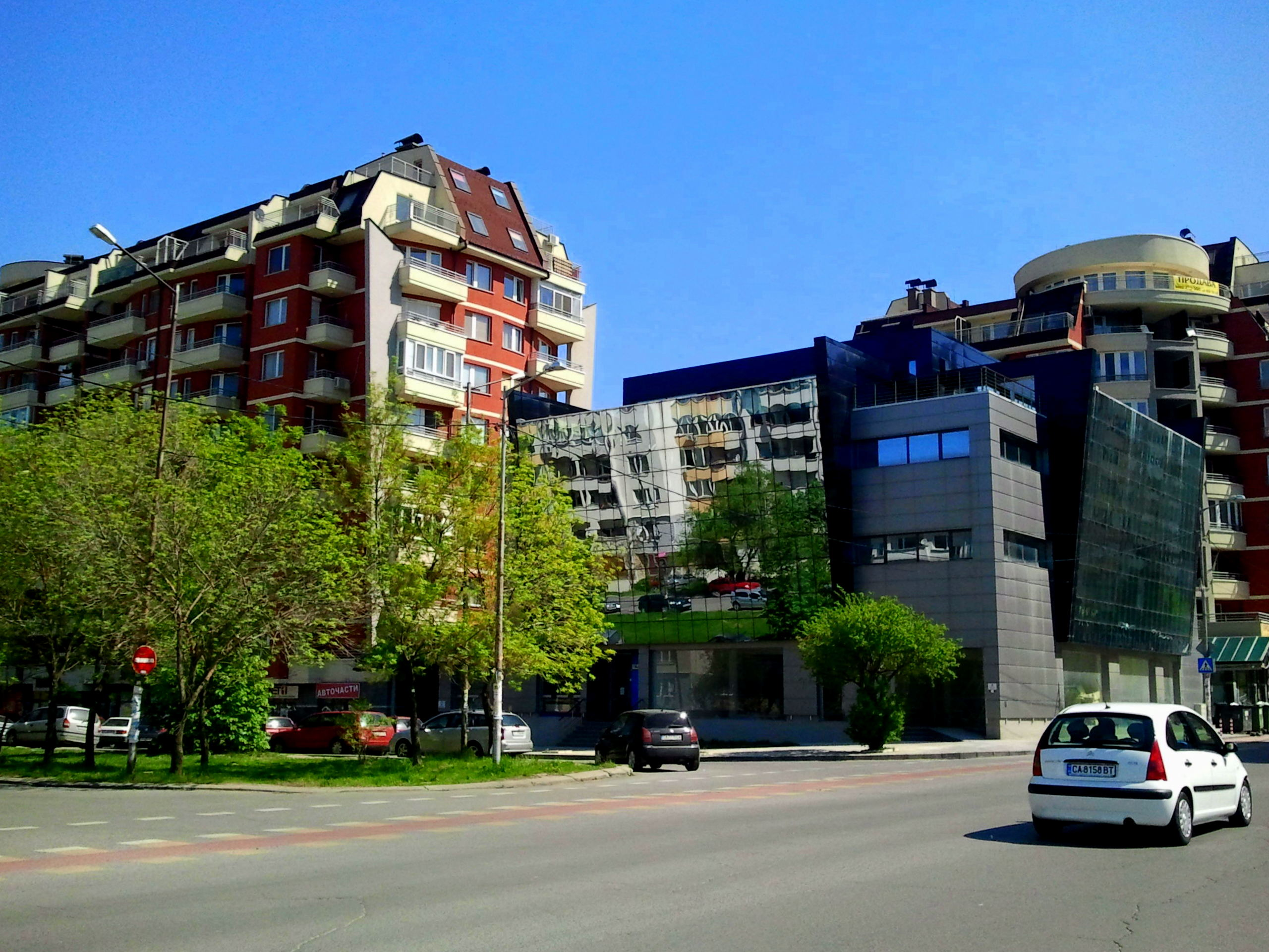 Kompleks Ksenia Mladost 4